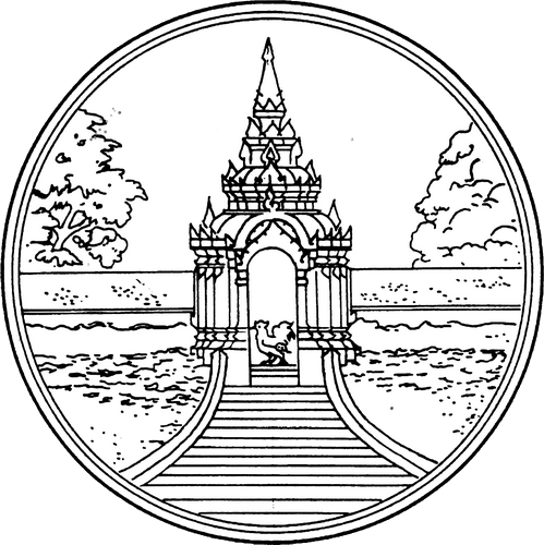 Provincial seal of Lampang province.